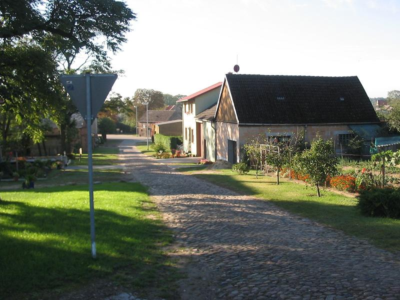 Bergstraße (german for mountain street) to plateau Zauche in Neuendorf. The village Neuendorf is a part of the town Brück in the district Potsdam Mittelmark, state Brandenburg, Germany. The village is situated on the north border of the „Baruther Urstromtal“ (glacial valley) subplateau Zauche.